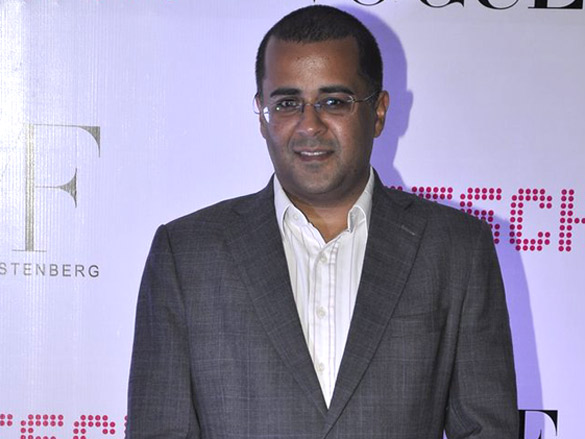 Chetan Bhagat grace DVF-Vogue dinner